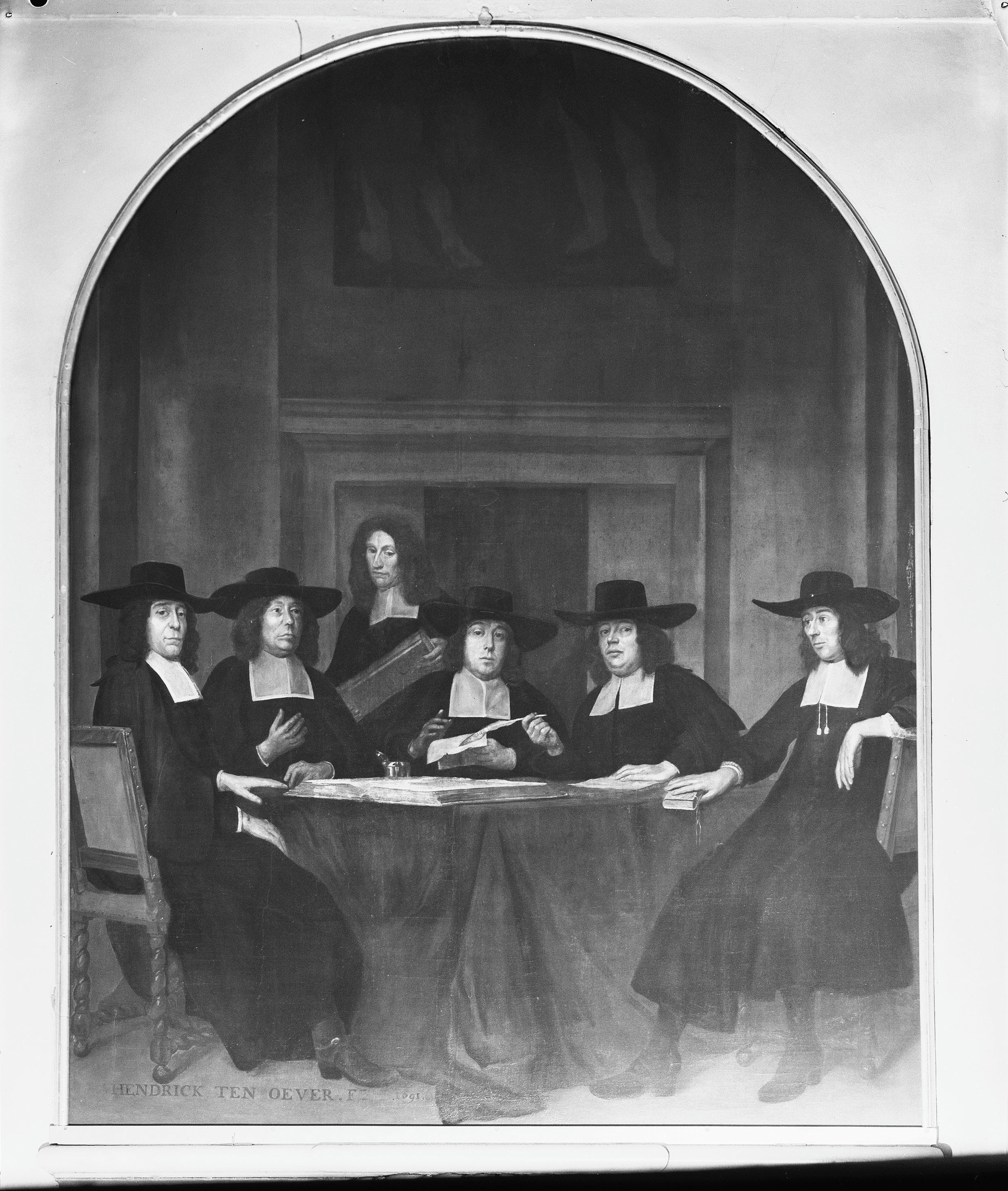 Group portrait of the Dutch Reformed ministers of Zwolle, hanging in sacristy of Dutch Reformed church called St. Michaels church in Zwolle